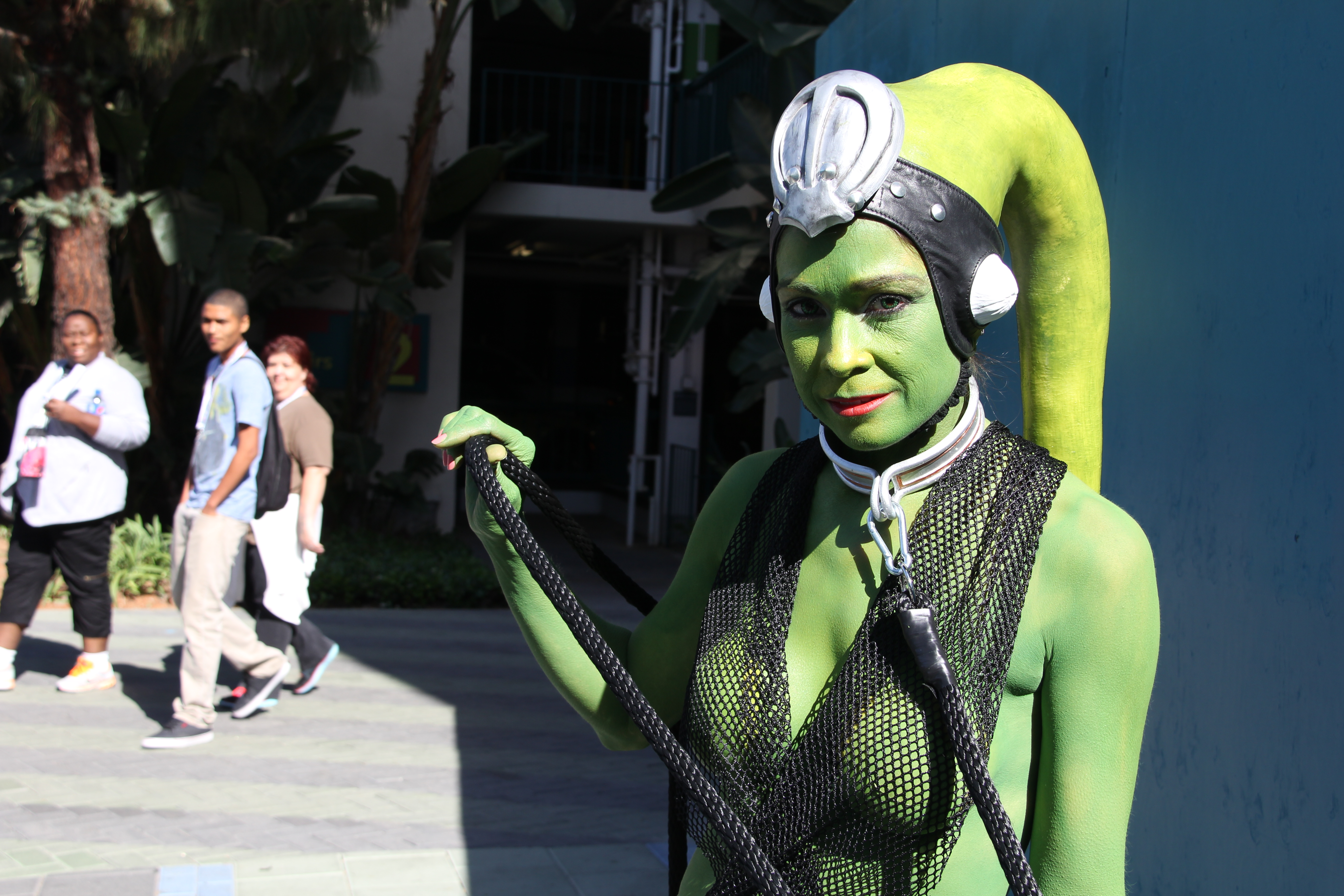 A cosplay of Jabba's slave, Oola Star Wars Celebration in Anaheim, April 2015.